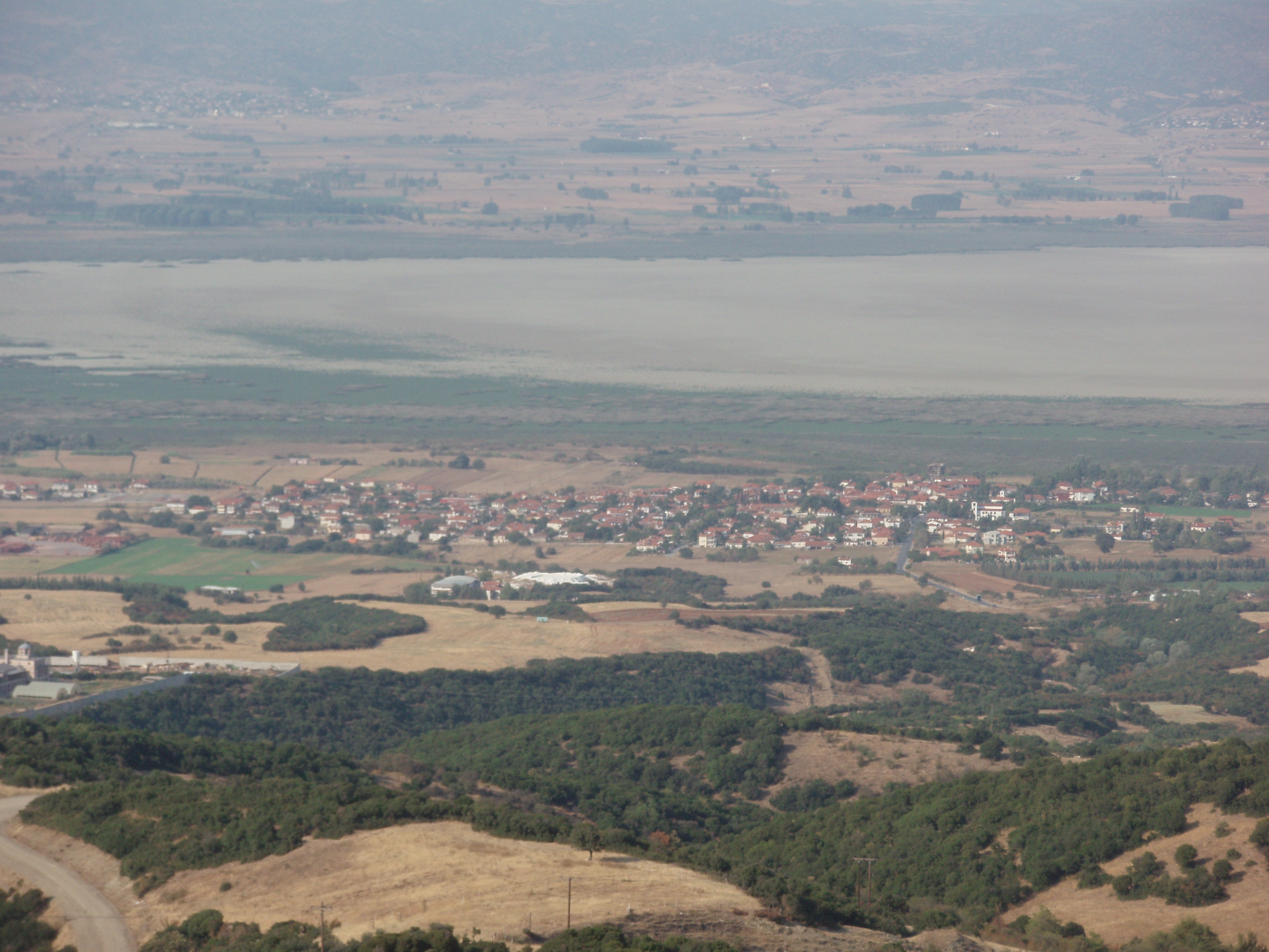 Lake Koronia (Lake Agios Vasilios), Thessaloniki prefecture, Region of Central Makedonia, Greece, as seen from Chortiatis village in September 2008 after the lake was dried.